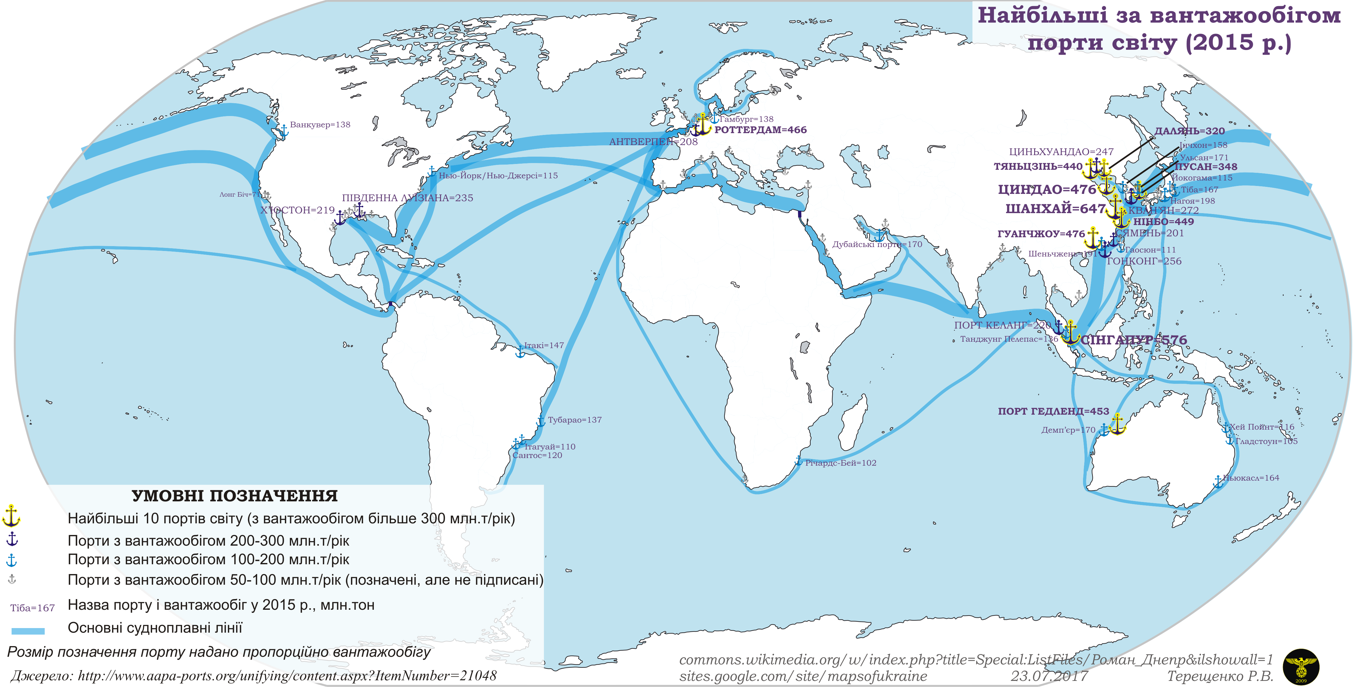 The world's largest ports of freight turnover in 2015